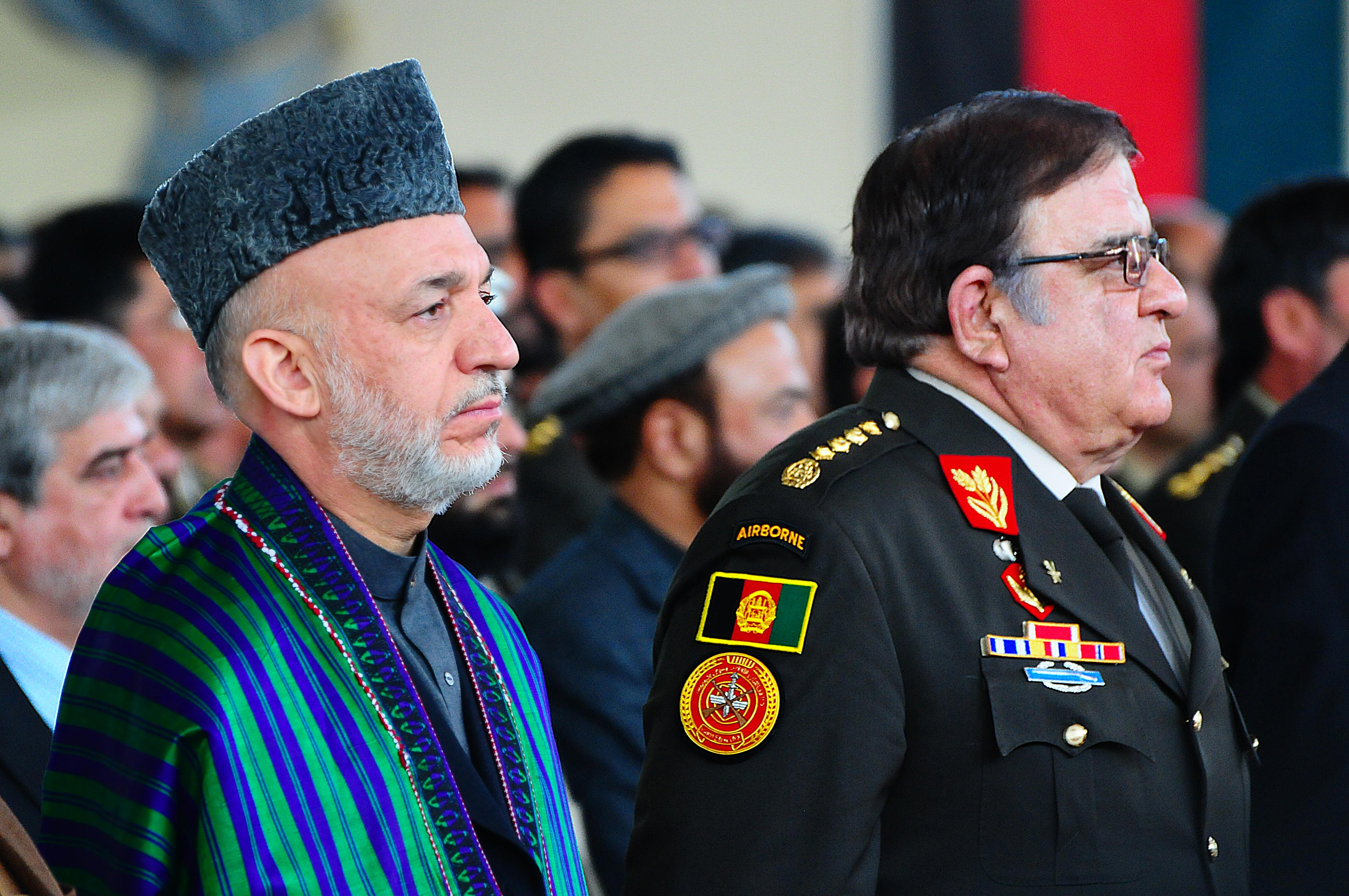 President of Afghanistan Hamid Karzai and Afghan Minister of Defense Abdul Rahim Wardak stand for the Afghan national anthem during the National Military Academy of Afghanistan's third graduation since opening its classrooms six years ago. Karzai has served in his current role since 2002 when he was elected by the people via the Loya Jirga, and via national government election process since 2004 as the first directly elected president in Afghanistan's history. National Military Academy of Afghanistan awarded bachelor's degrees to 299 newly commissioned officers who will serve in any of the 11 branches of the Afghan National Army. (Petty Officer 2nd Class John Fischer)